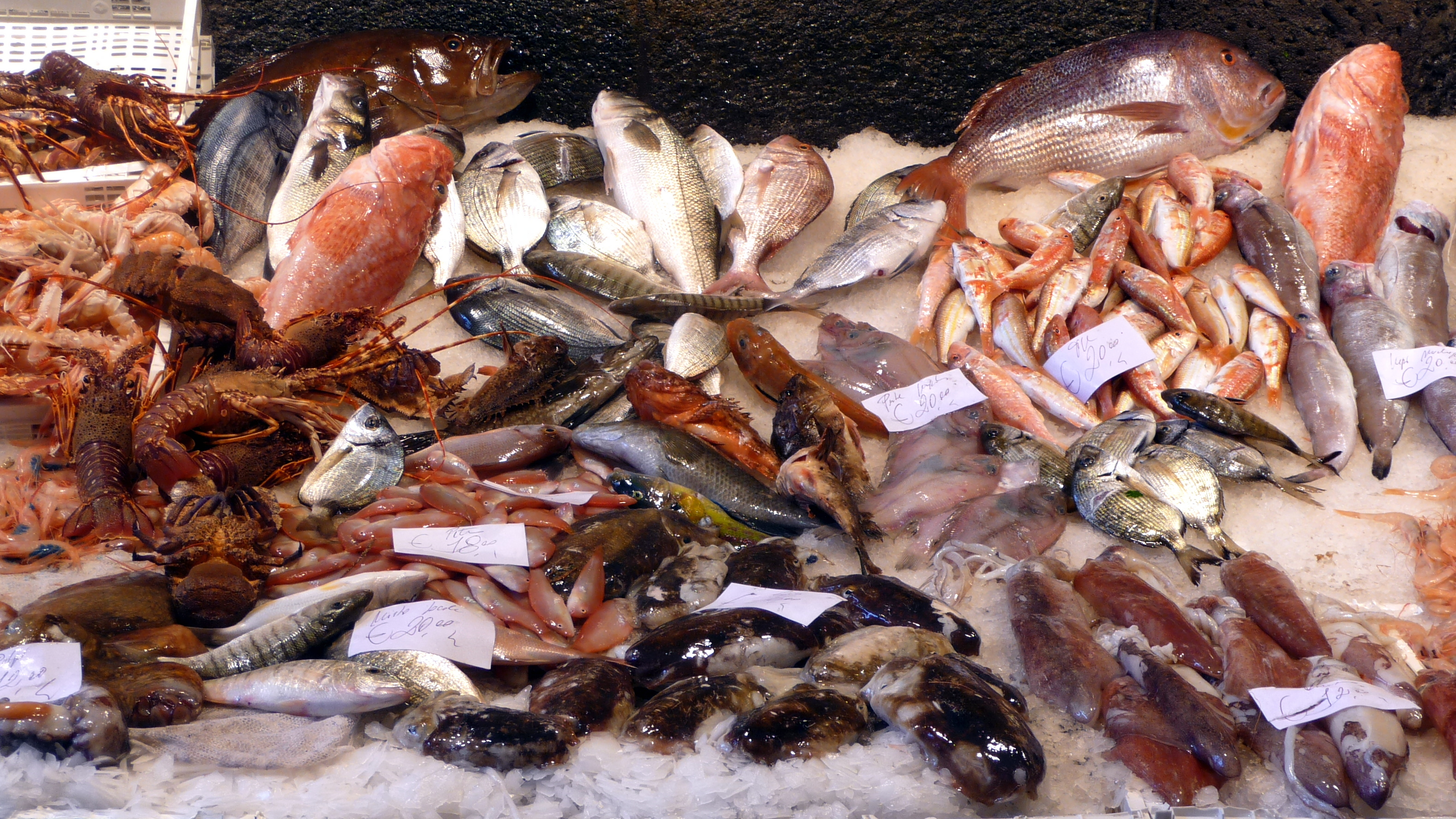 Seafood on the market Pescheria, Catania, Sicily, Italy